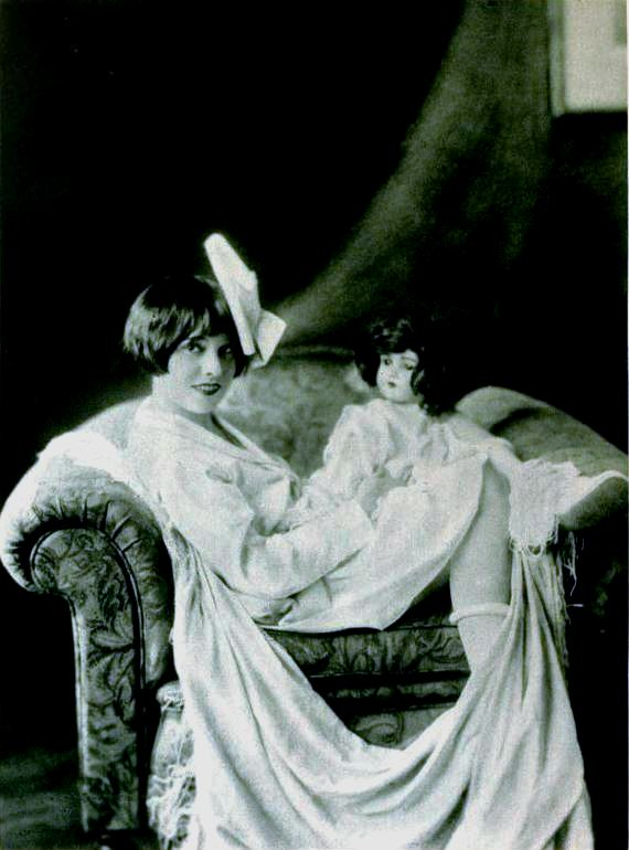 Screenwriter Anita Loos, on page 12 of the April 1922 Photoplay.